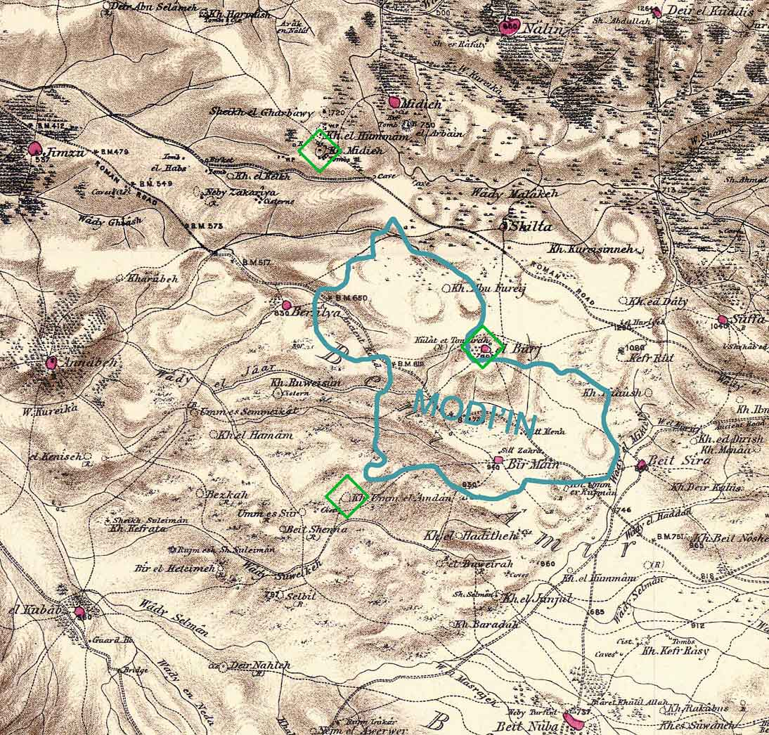 Combination of portions of two maps produced by the Survey of Western Palestine, first published in 1880 by the Committee of the Palestine Exploration Fund. The editor, Walter Besant, died in 1901. The blue shape gives the approximate boundaries of the build-up area of Modi'in in 2006 (Google Earth). The green diamonds show three scientific theories regarding the location of the ancient city of Modi'in. There are other popular theories. Produced by Zero0000 using Photoshop 7.0.